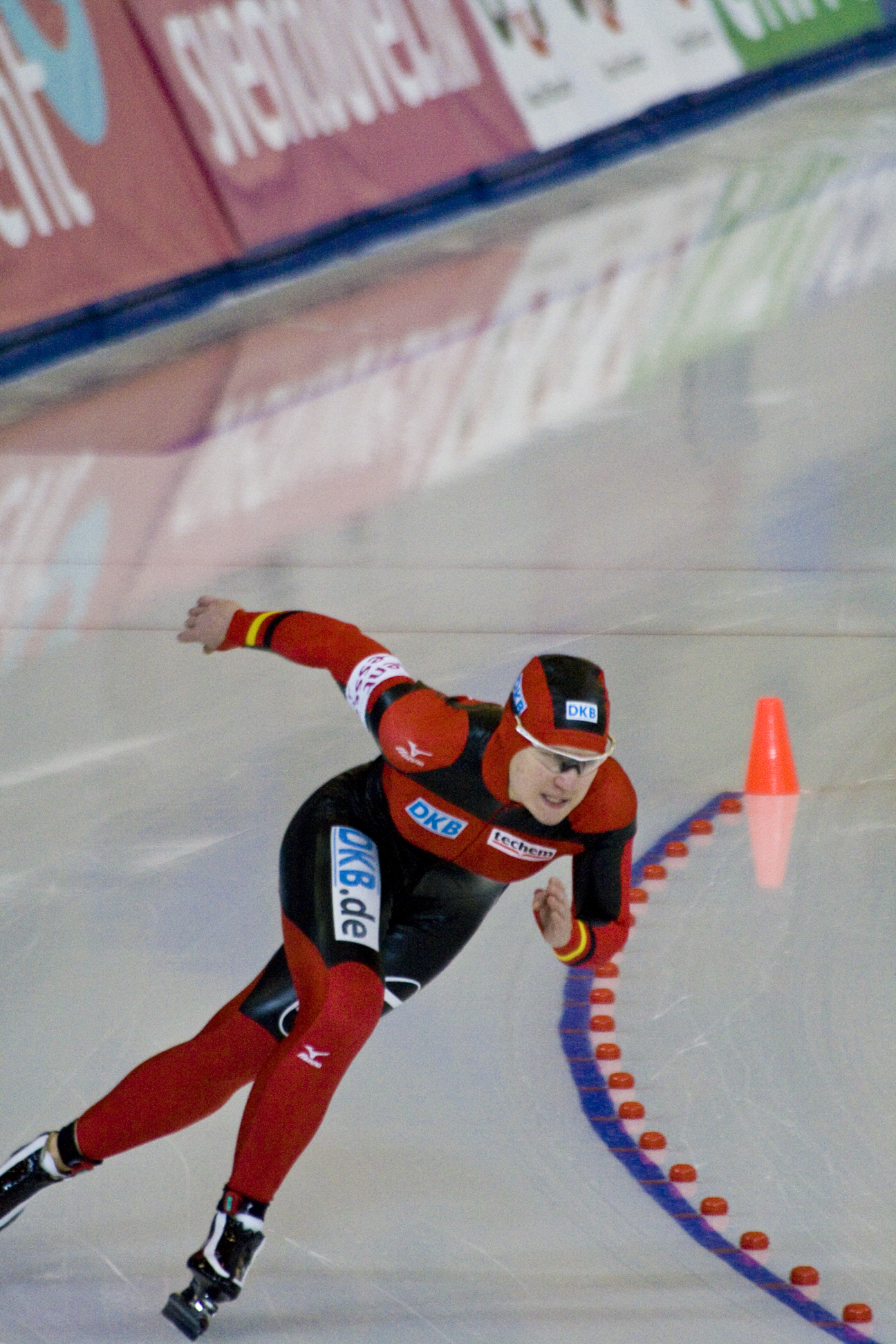 Jenny Wolf, Team Germany